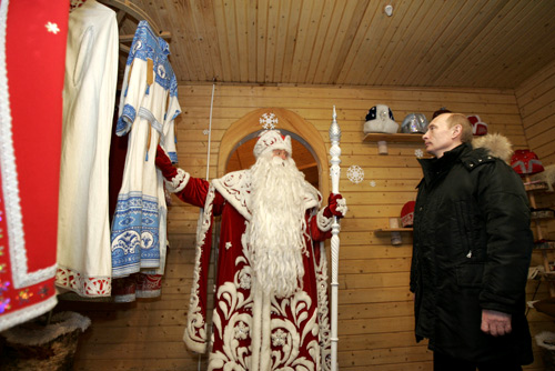 VOLOGODSKAIA REGION. At Ded Moroz's residence.